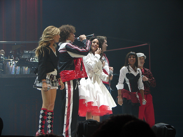 HSM Cast.